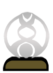 AFC Champions League Trophy